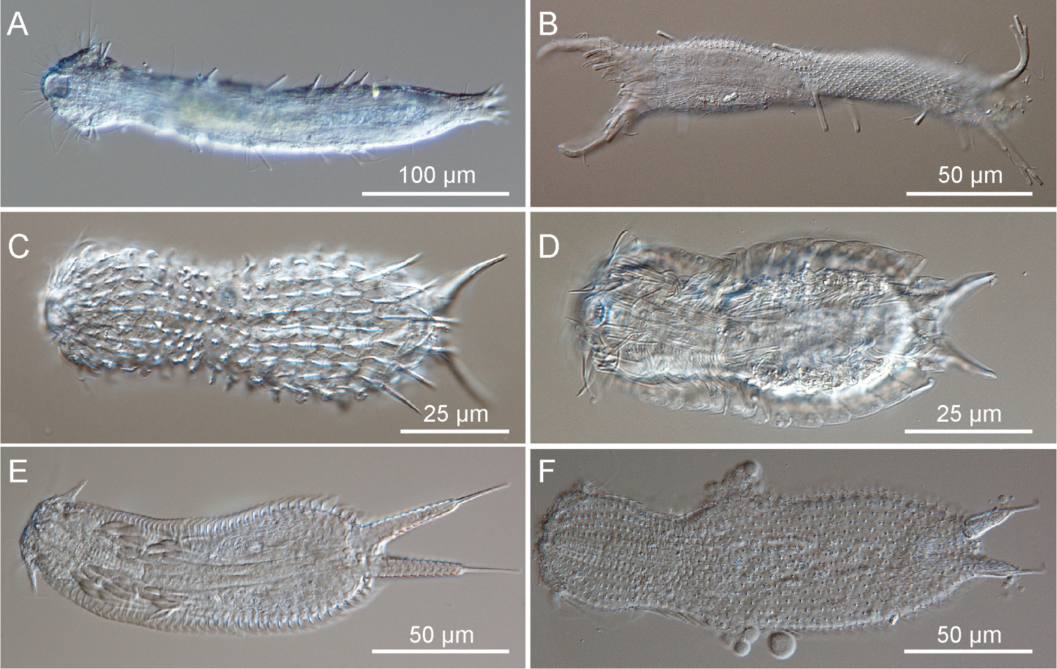 Gastrotricha from St. Lucia beach (KwaZulu-Natal, South Africa). The microphotographs were obtained using differential interference contrast microscopy. A – Dactylopodola australiensis (Macrodasyida), ventral view. B – Pseudostomella sp. (Macrodasyida), twisted juvenile. C – Halichaetonotus sp. (Chaetonotida), dorsal view. D – Halichaetonotus sp. (Chaetonotida), ventral view. E – Heteroxenotrichula squamosa (Chaetonotida), ventral view. F – Xenotrichula sp. (Chaetonotida), dorsal view.